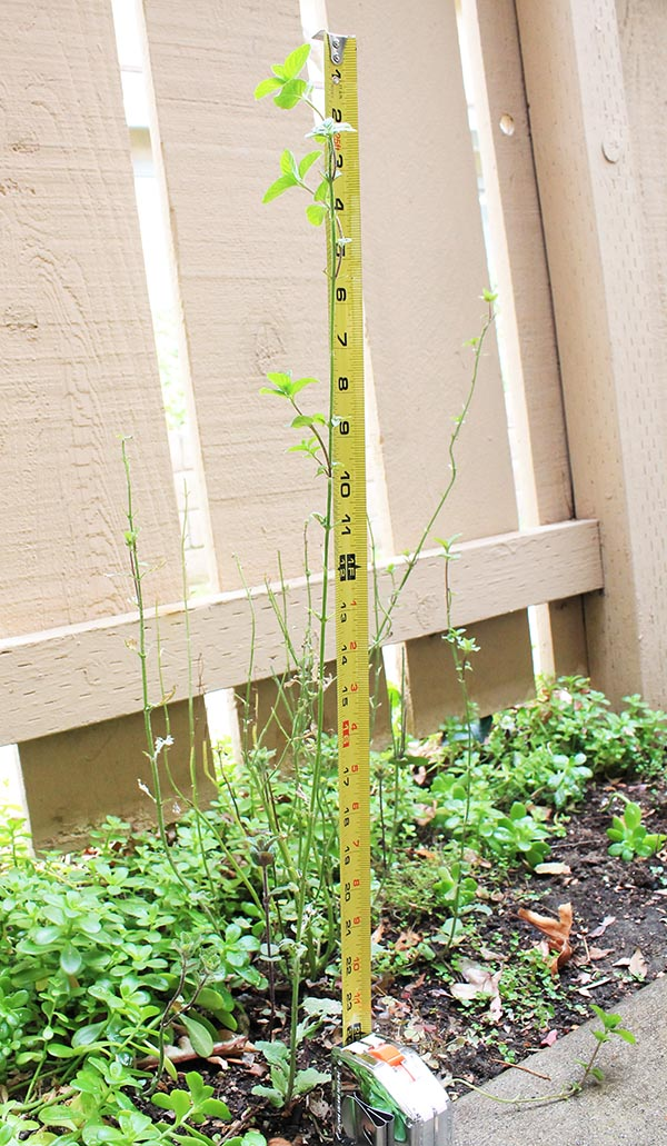 Yerba Buena patch fallen victim to pill bugs and caterpillars found solace in growing tall.